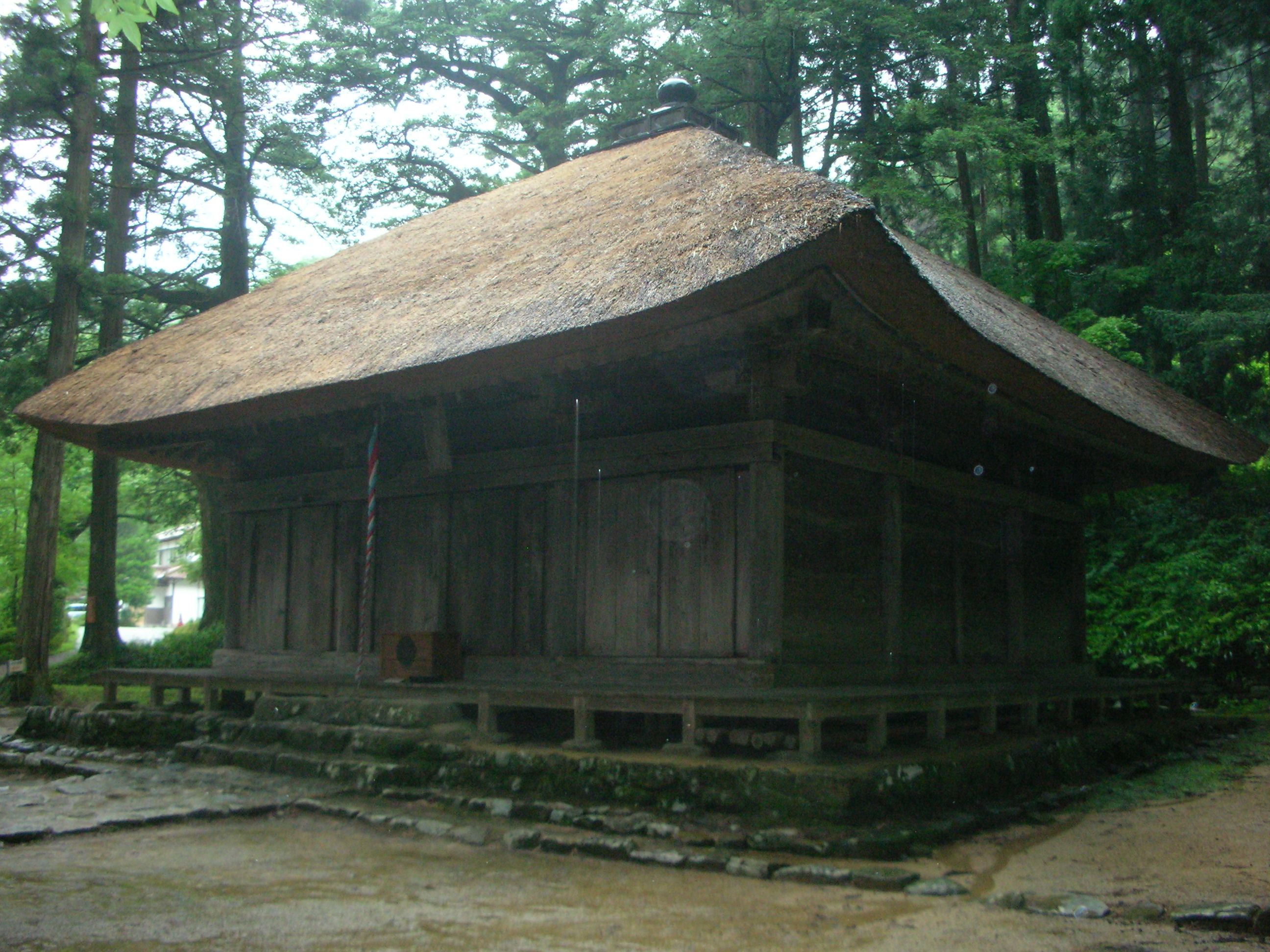 The Kozoji temple in Kakuda City, Miyagi Prefecture, Japan